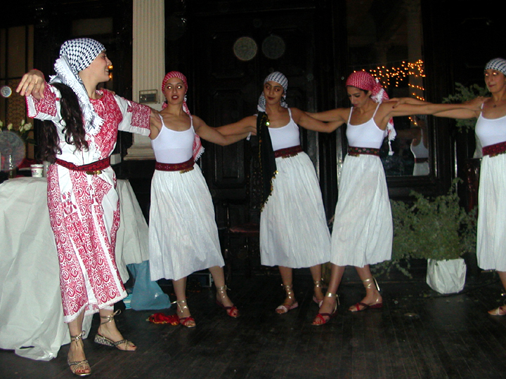 feminine Dabke